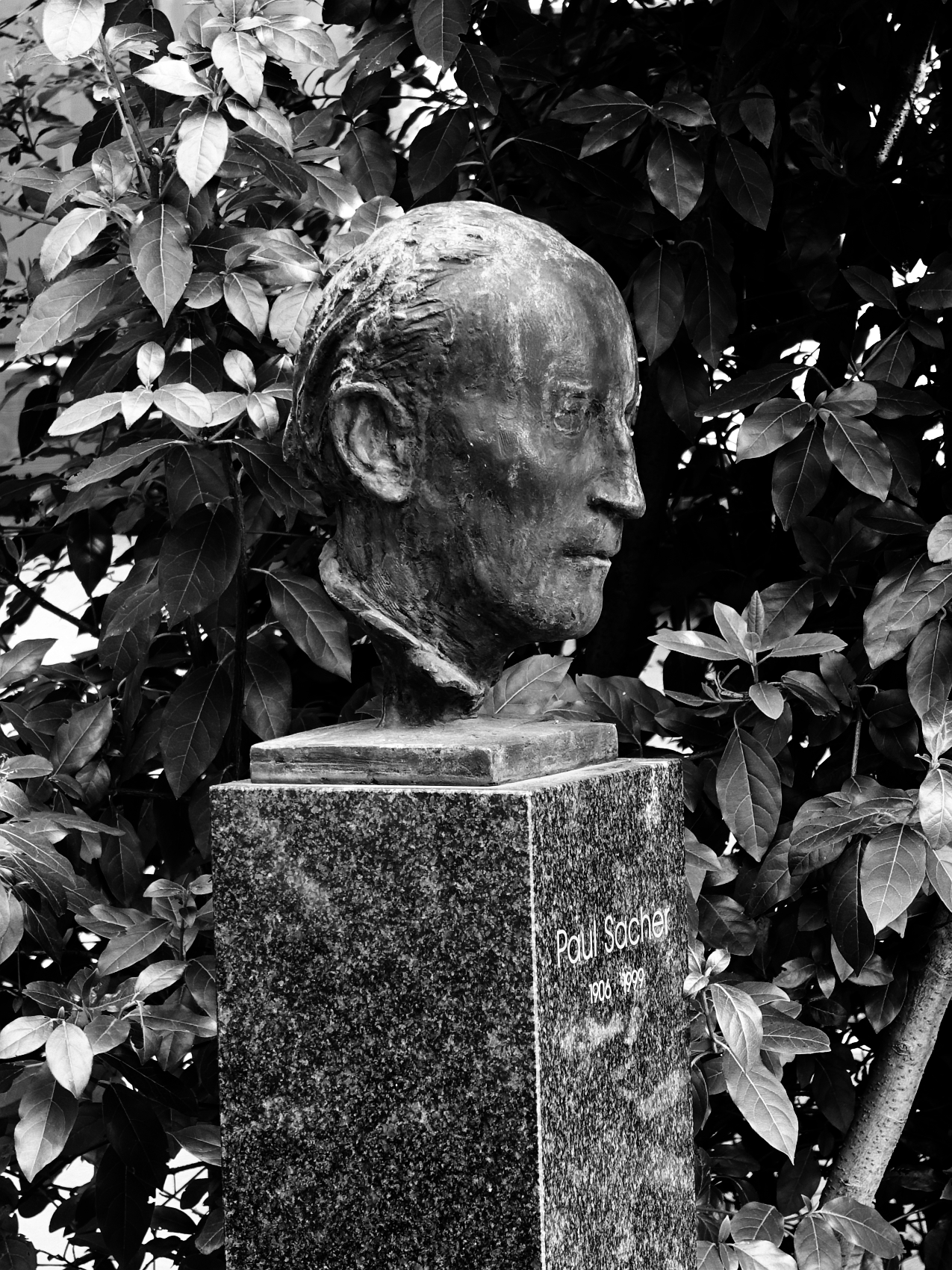 Büste von Paul Sacher (1906-1999) 1971. Schola Cantorum Basiliensis, Leonhardstrass 6, Basel. Von Alexander Zschokke (1894-1981)